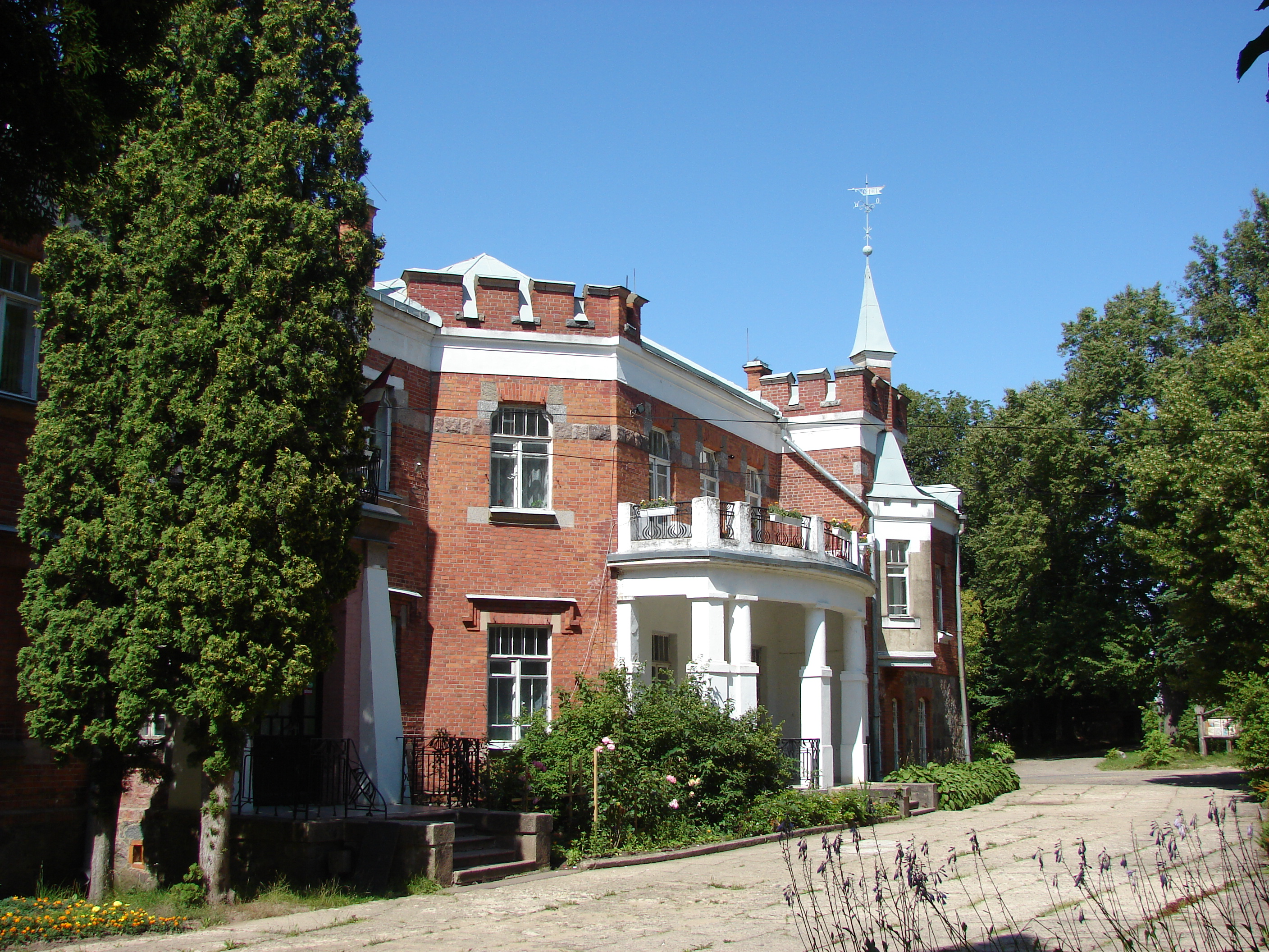 Lūznava Manor